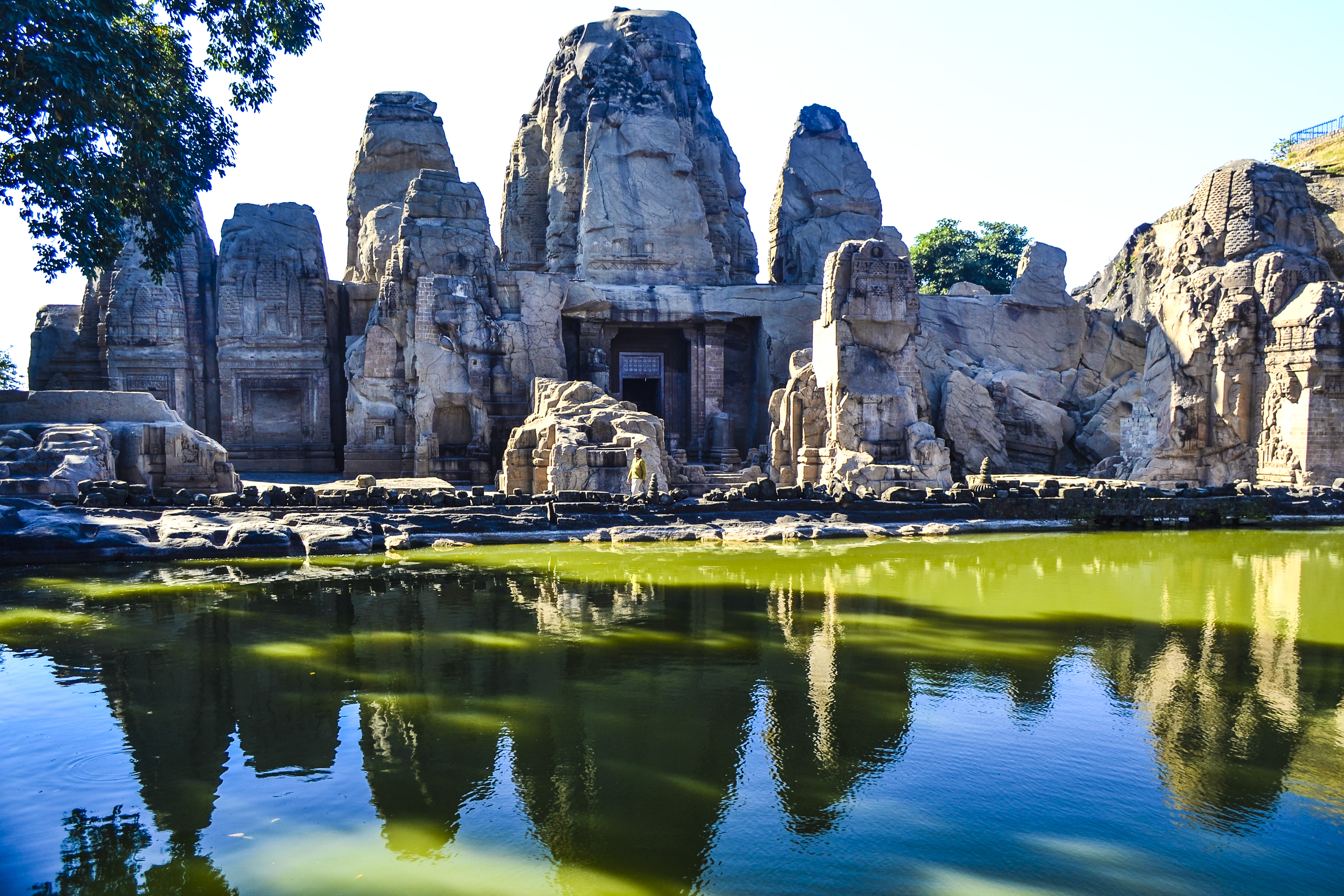 Temple and its relection in the Pond